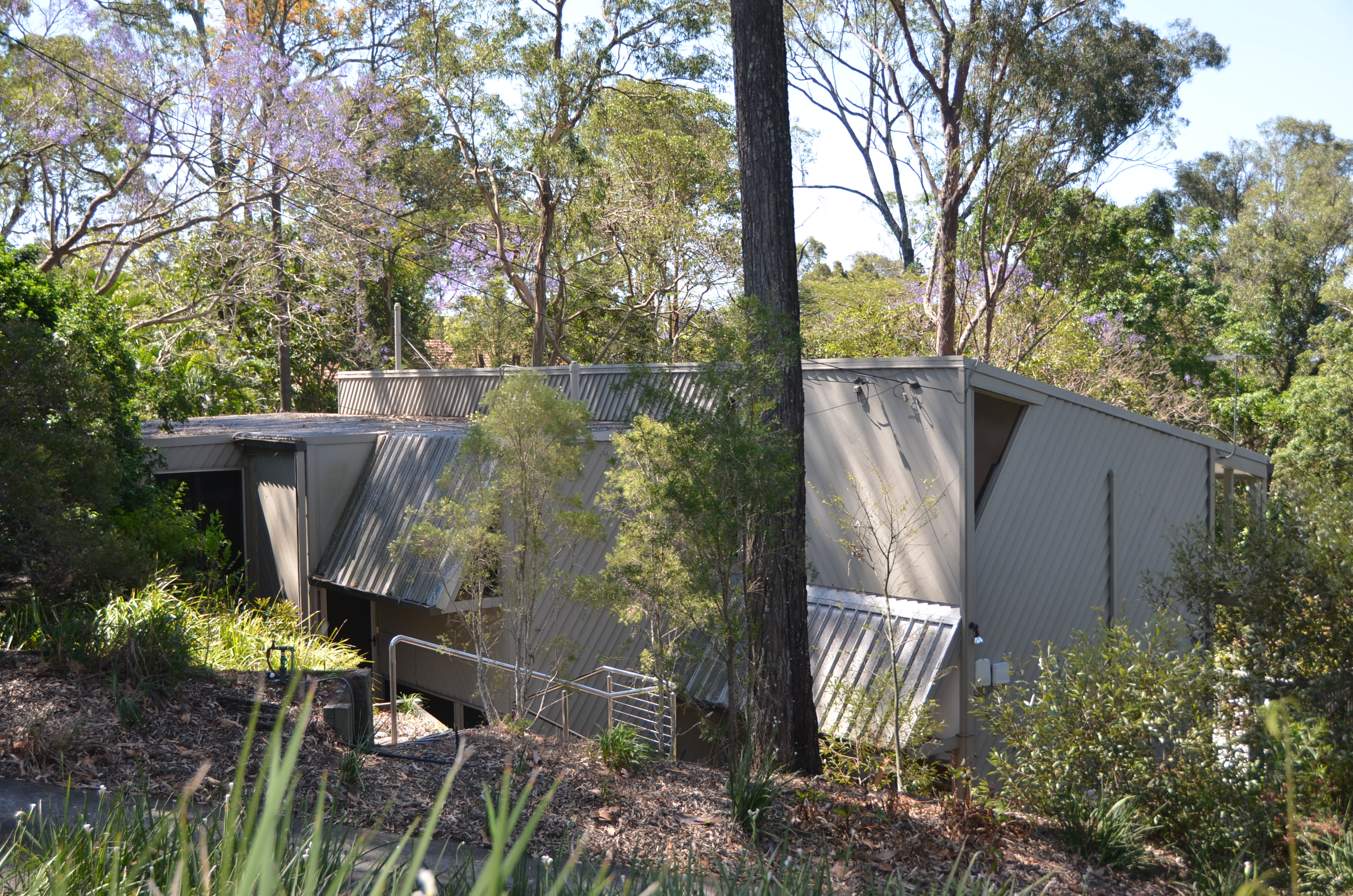 Dunlop House - John Dalton 1975